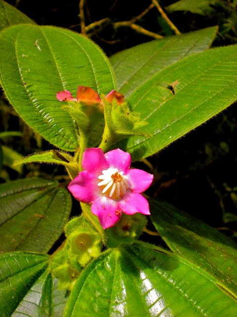 Blakea glandulosa. Endemic to the base of the Andes, photographed here in the Tropical Wet Forest just east of Napo-Galeras National Park.